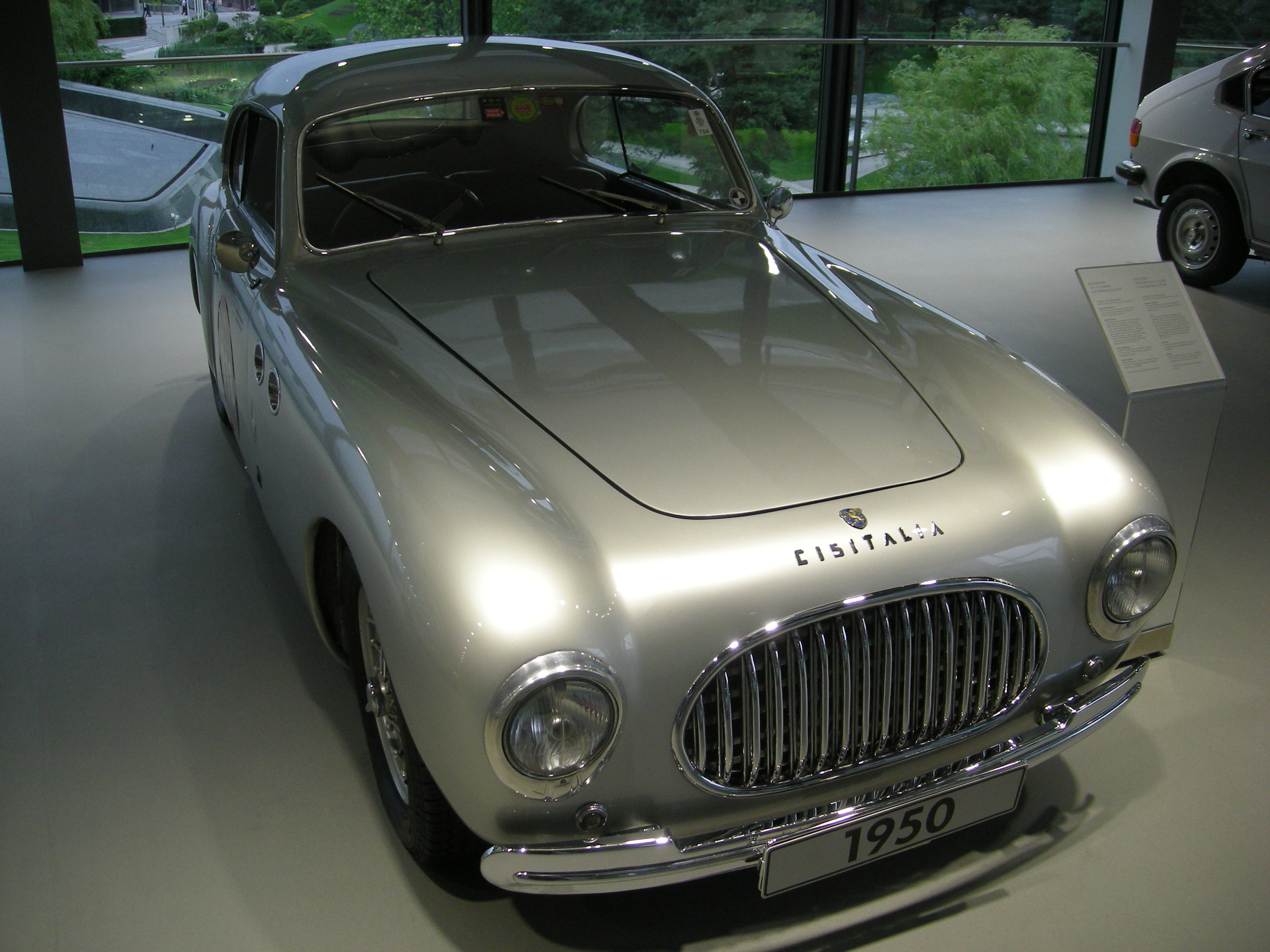 A 1950 Cisitalia 202 Gran Sport inside the ZeitHaus at Autostadt in Wolfsburg, Niedersachsen (Germany).